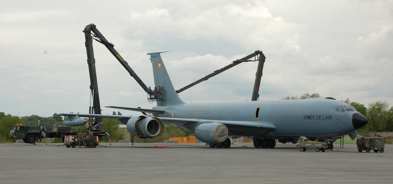 French Air Force and U.S. Air Force aircraft maintenance crews team together, May 5, to change out a rudder actuator on a French KC-135 at Manas Air Base, Kyrgyzstan.